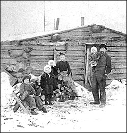 Minnesota family poses in front of log cabin, 1890